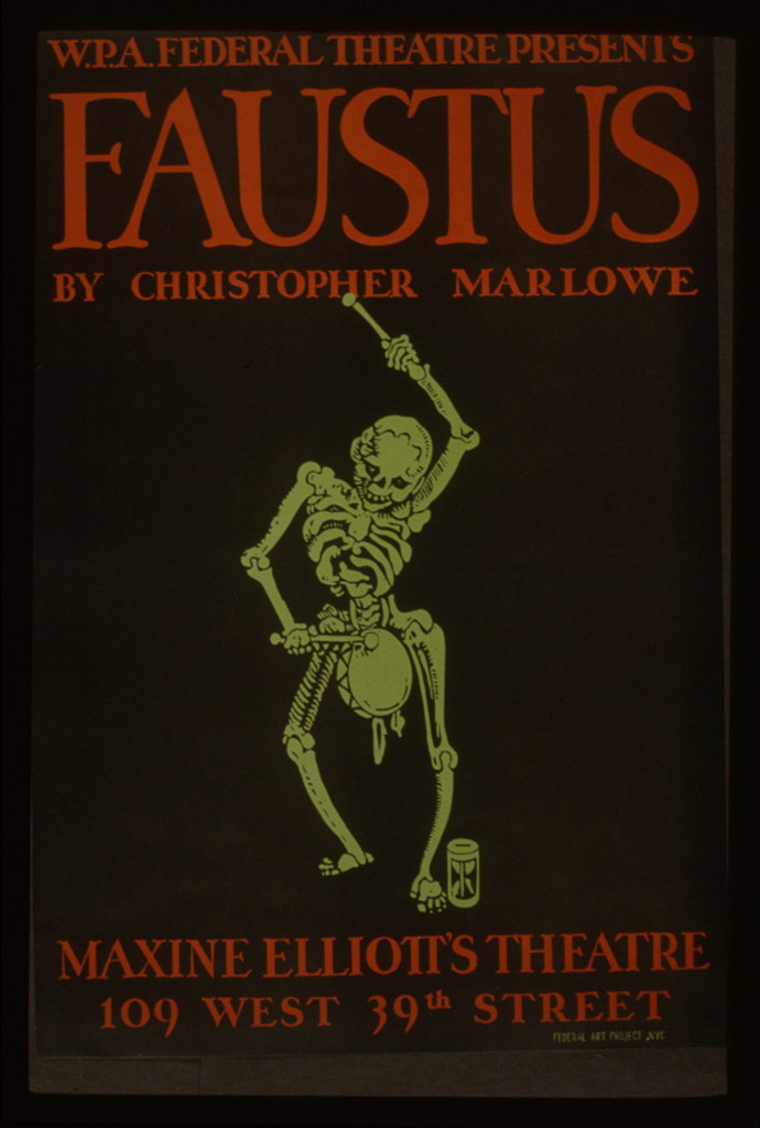 Facsimile of poster advertising performance of the play Faustus by Christopher Marlowe at Maxine Elliott's Theatre, 109 West 39th Street, New York, New York. Facsimile based on original poster by the Works Progress Administration Federal Theatre, circa 1935. Courtesy of the Library of Congress Prints and Photographs Division, Washington, D.C.